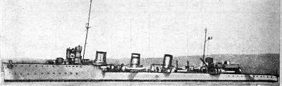 Royal Romanian scout cruiser Mărăşeşti.